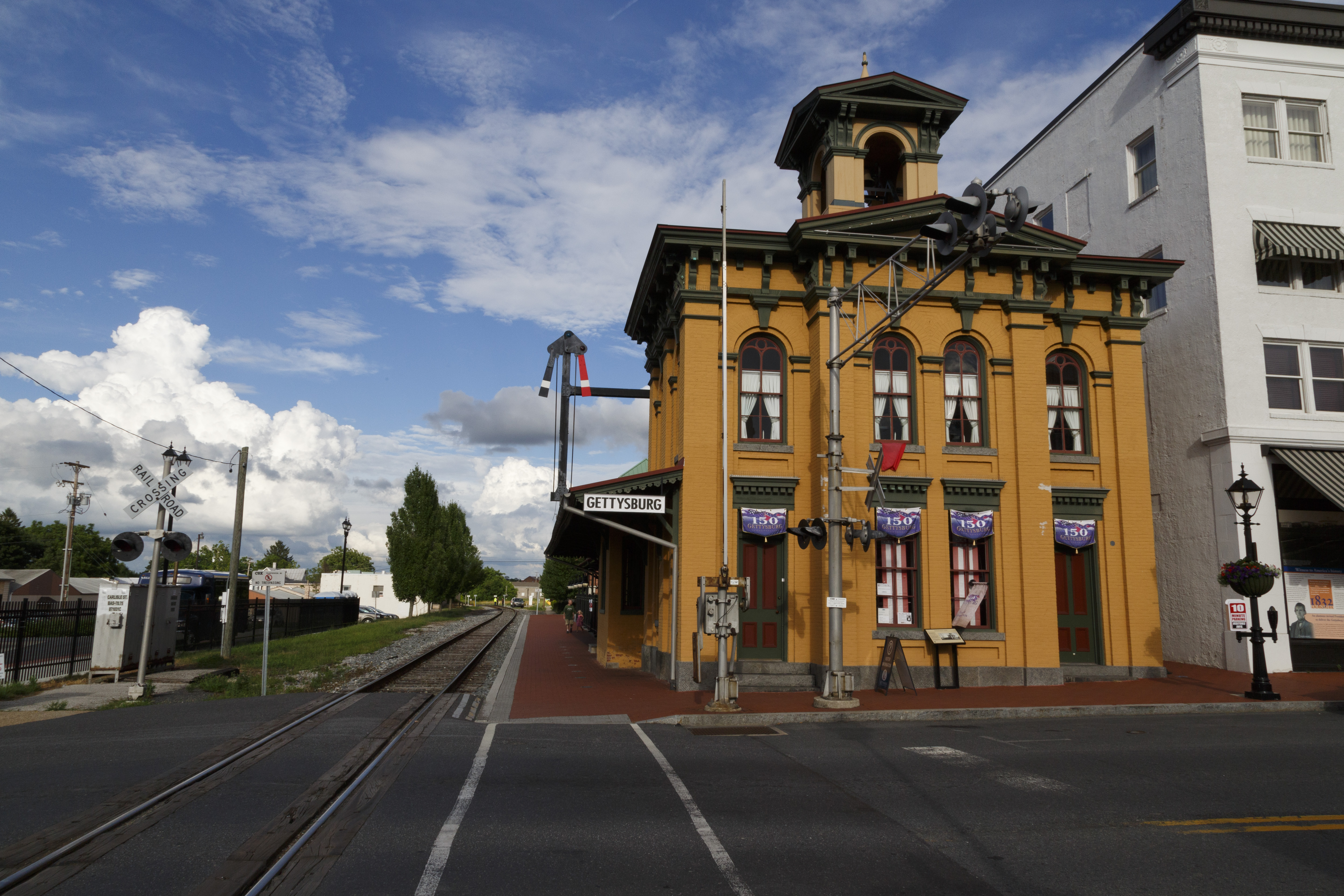 Gettysburg Train Station. In operation from 1858 to 1942. Was where Abraham Lincoln arrived and departed via train when he delivered the Gettysburg Address.